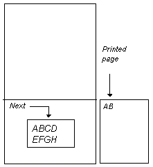 figura c